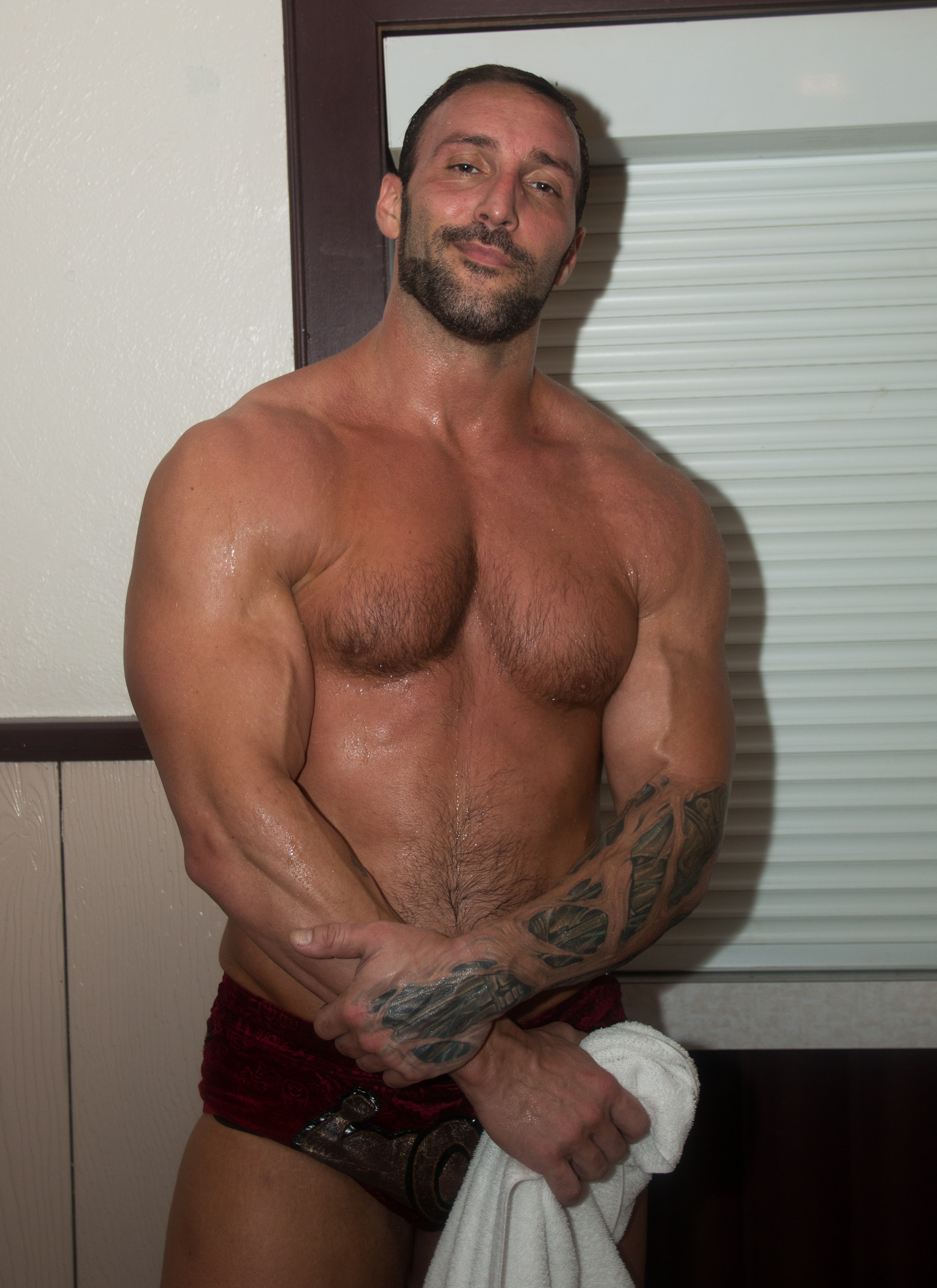 Chris Masters posing mid-show following a match at a PWA show in Kitchener, ON